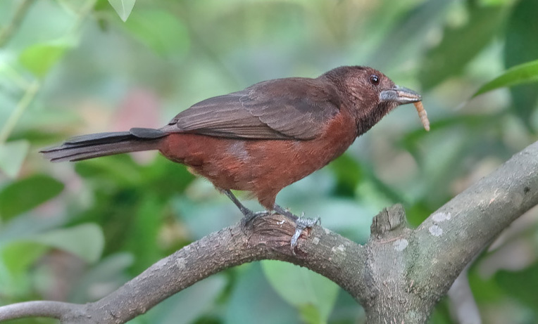 Silver-beaked Tanager - female